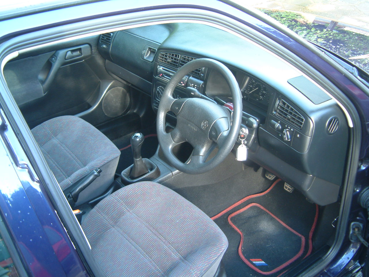 Golf mk3 interior